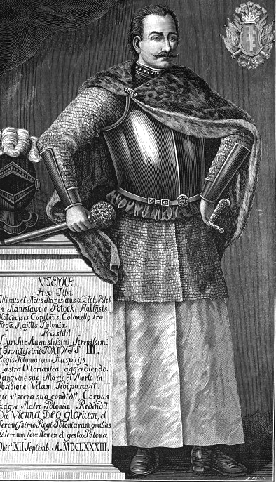 Stanisław Potocki (1659-1683)